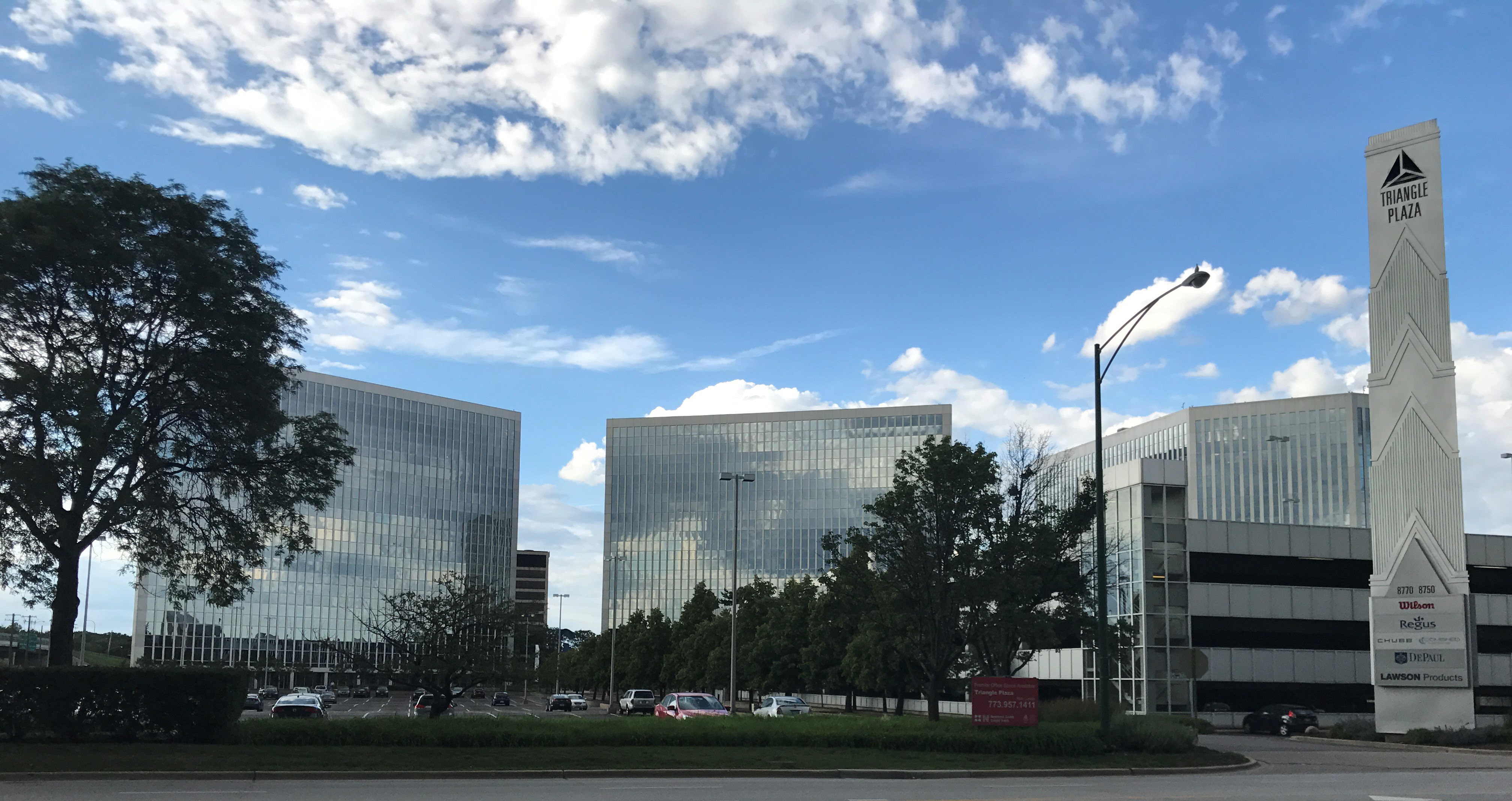 An image of the two buildings that make up the Triangle Plaza corporate office complex in the O'Hare community area in Chicago, Illinois